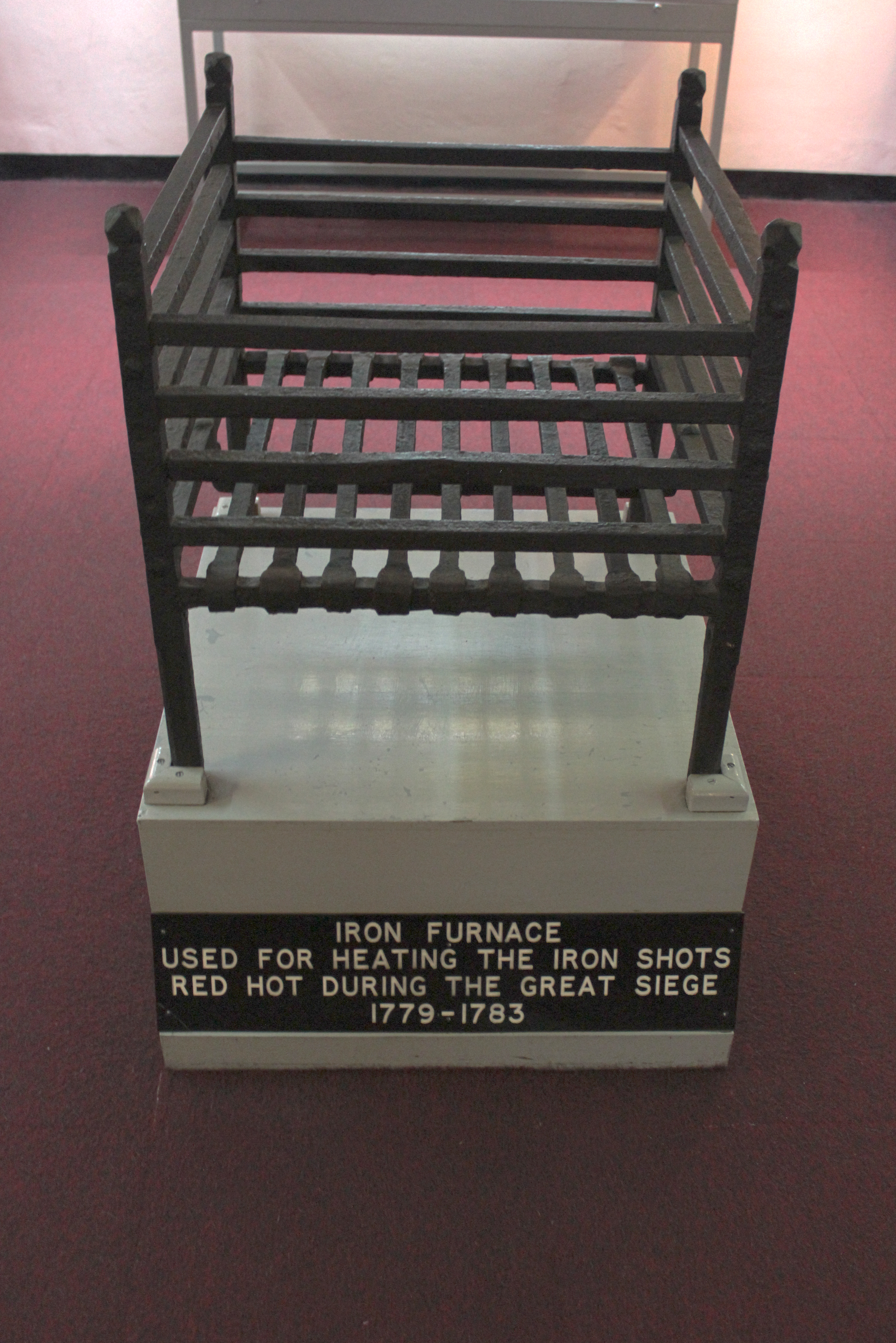 Iron furnace for heating iron shot during the Great Siege, Gibraltar Museum